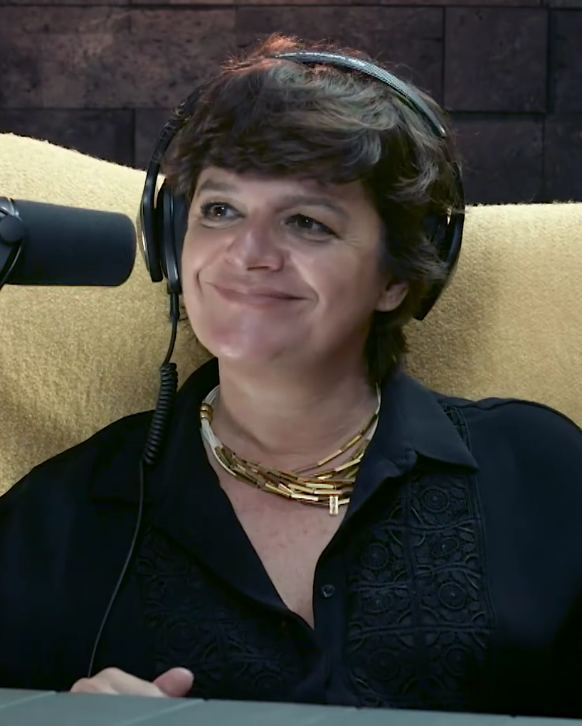 Júlia Pinheiro, Portuguese television personality